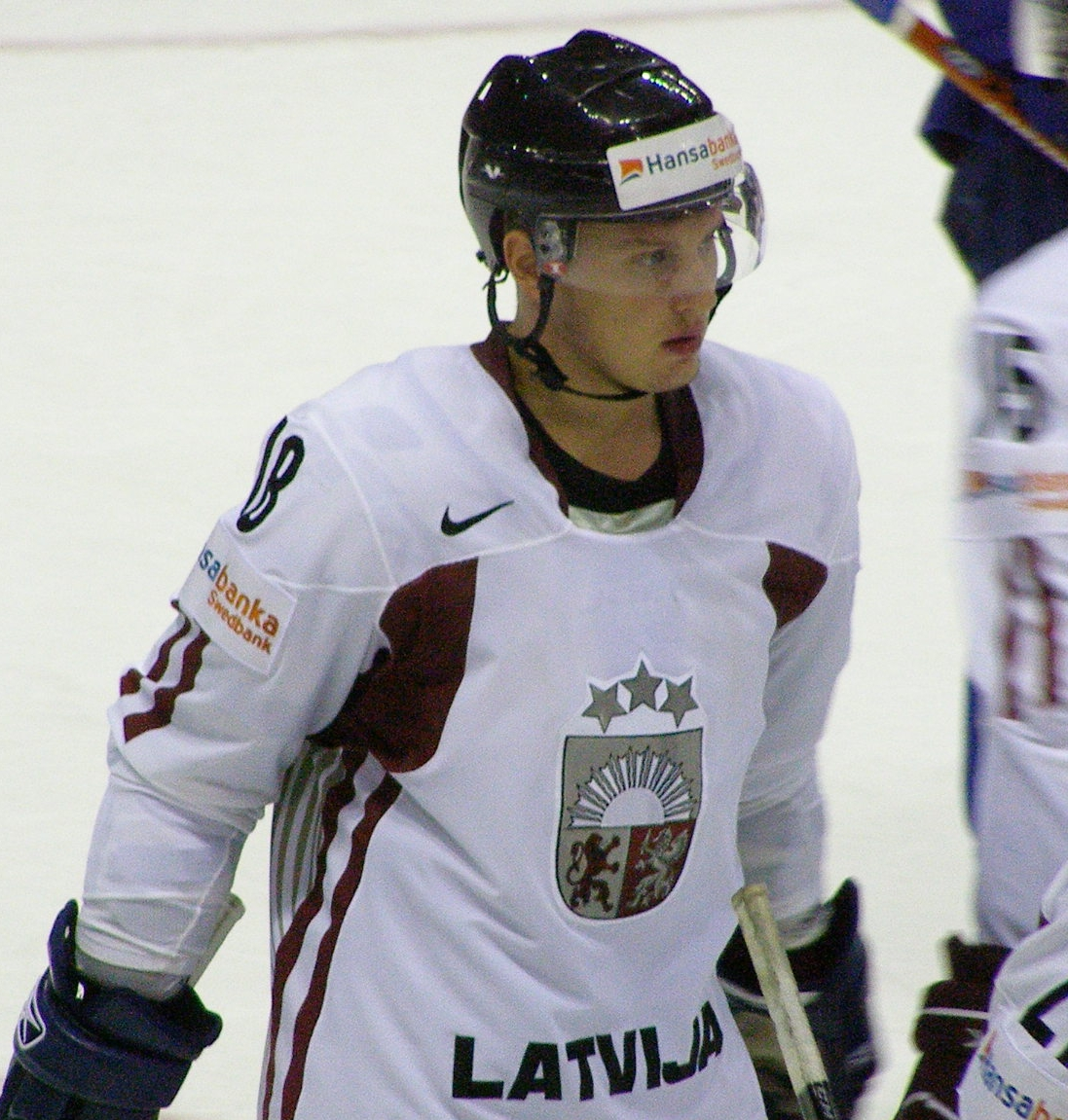 Georgijs Pujacs/Latvia VS Slovenia (IIHF World Hockey Championship in Halifax NS, May 6 2008)/